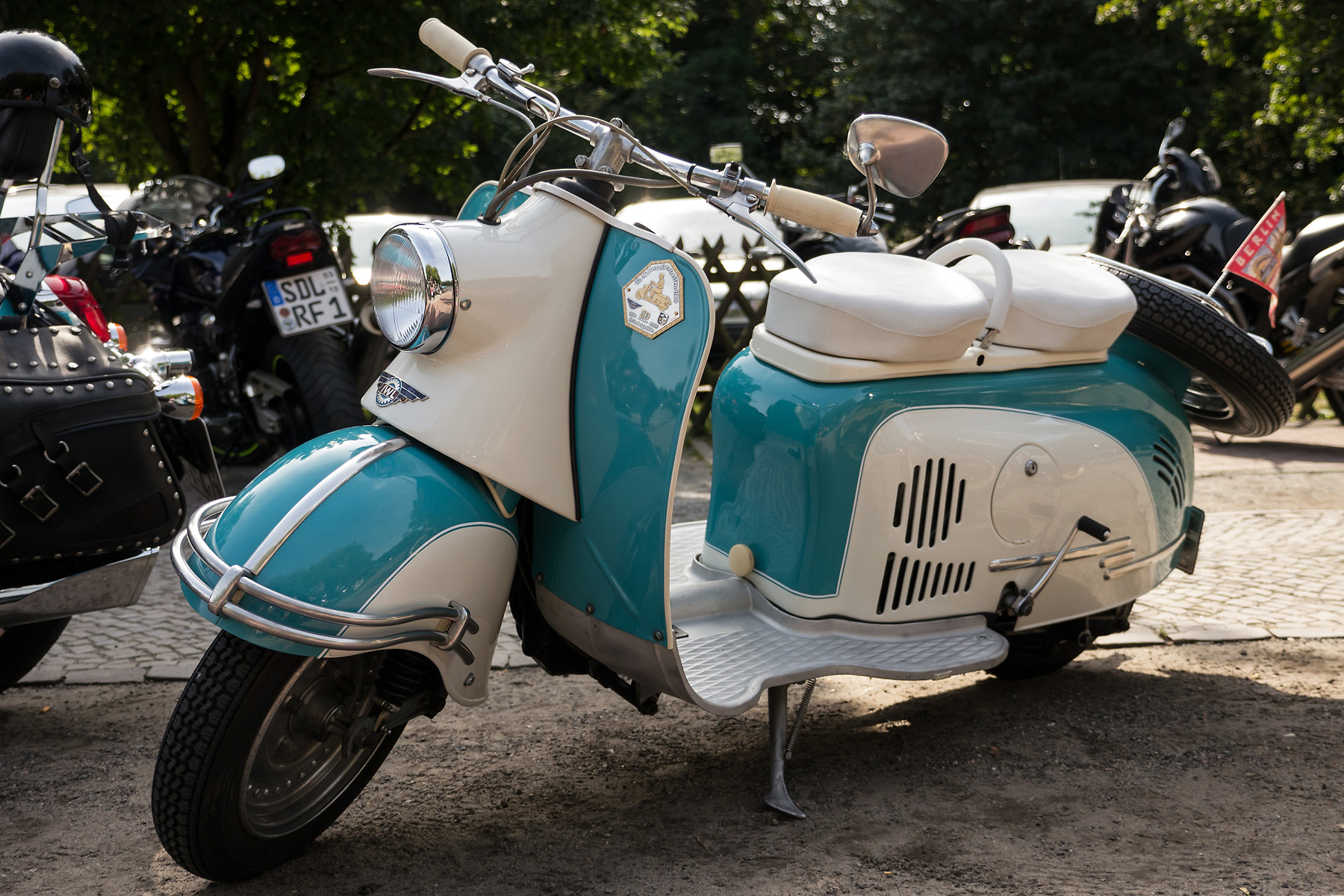 Scooter IWL Berlin